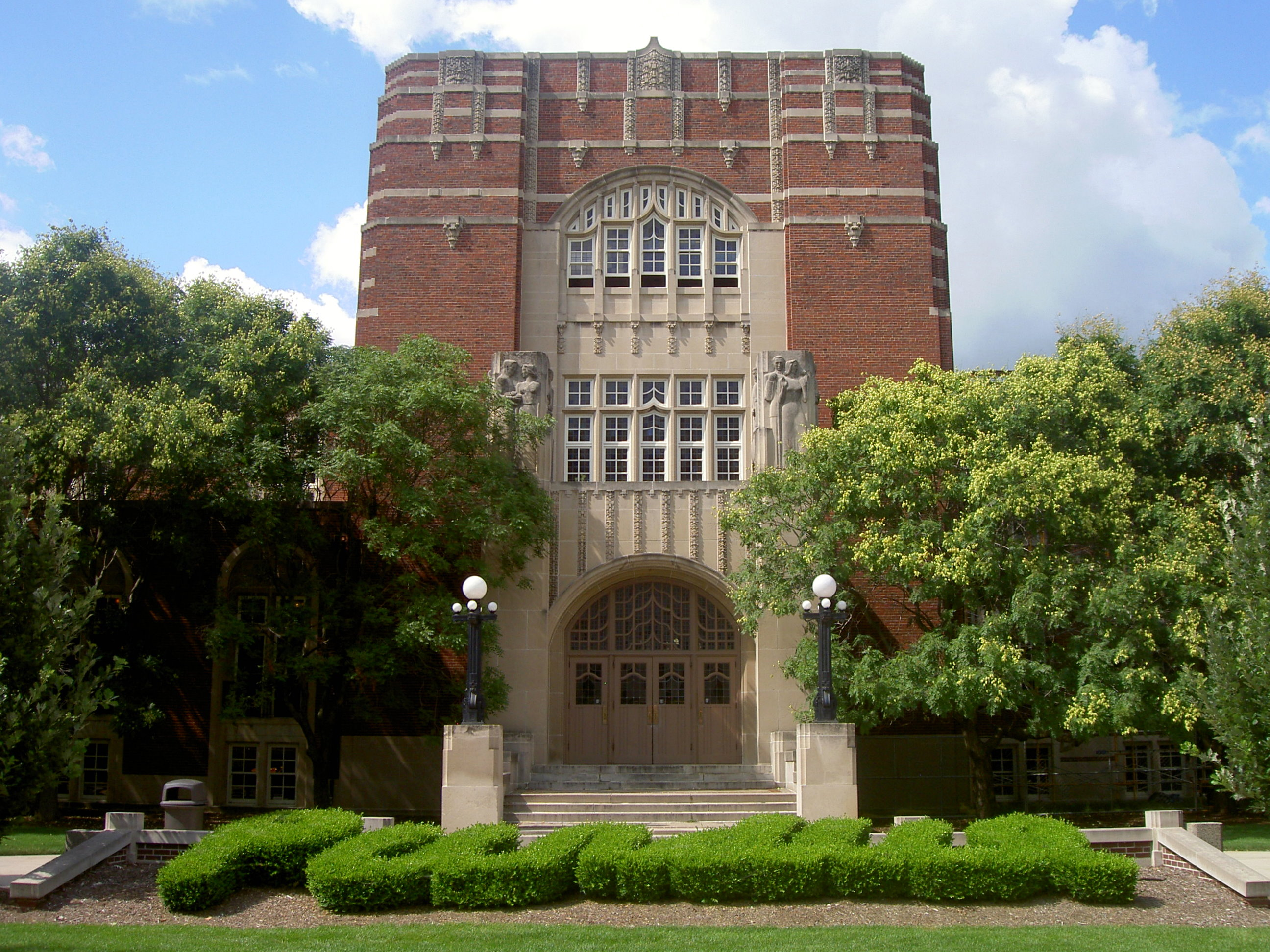 The shrubbery spells out "Purdue" in cursive.